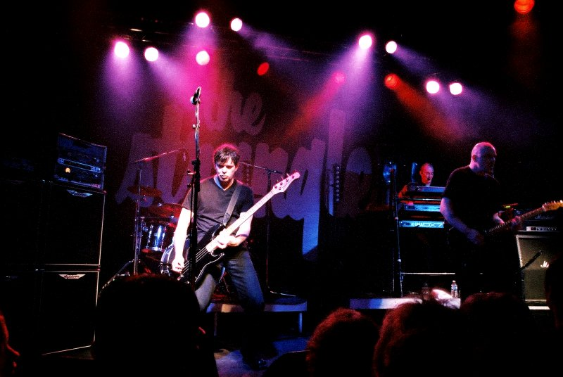 The Stranglers @ Big Band Cafe - Herouville-Saint-Clair